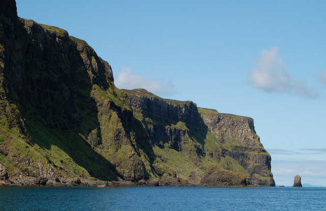 Cliffs of Canna, with the stack Iorcail lying off